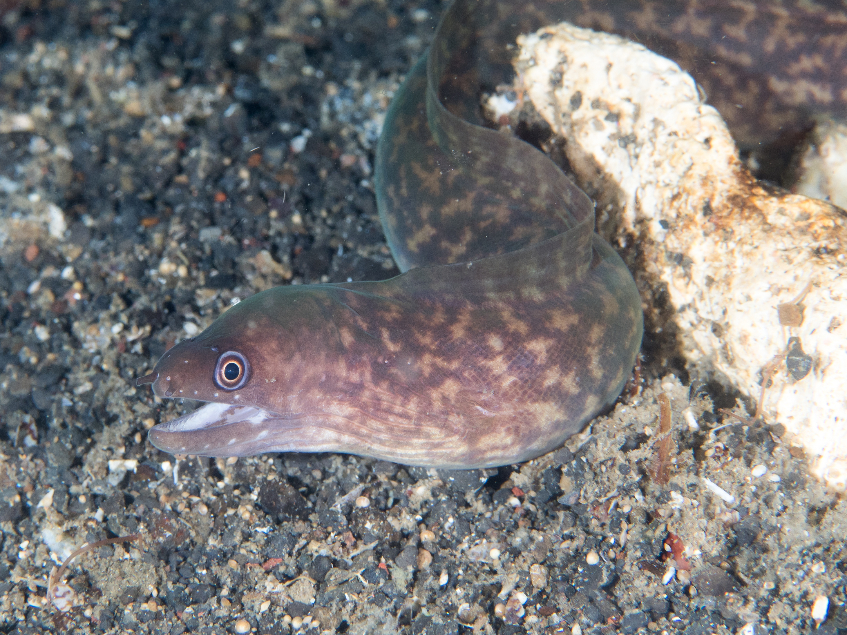 Lembeh, Indonesia - Whitespeckled snakemoray (Uropterygius xanthopterus)